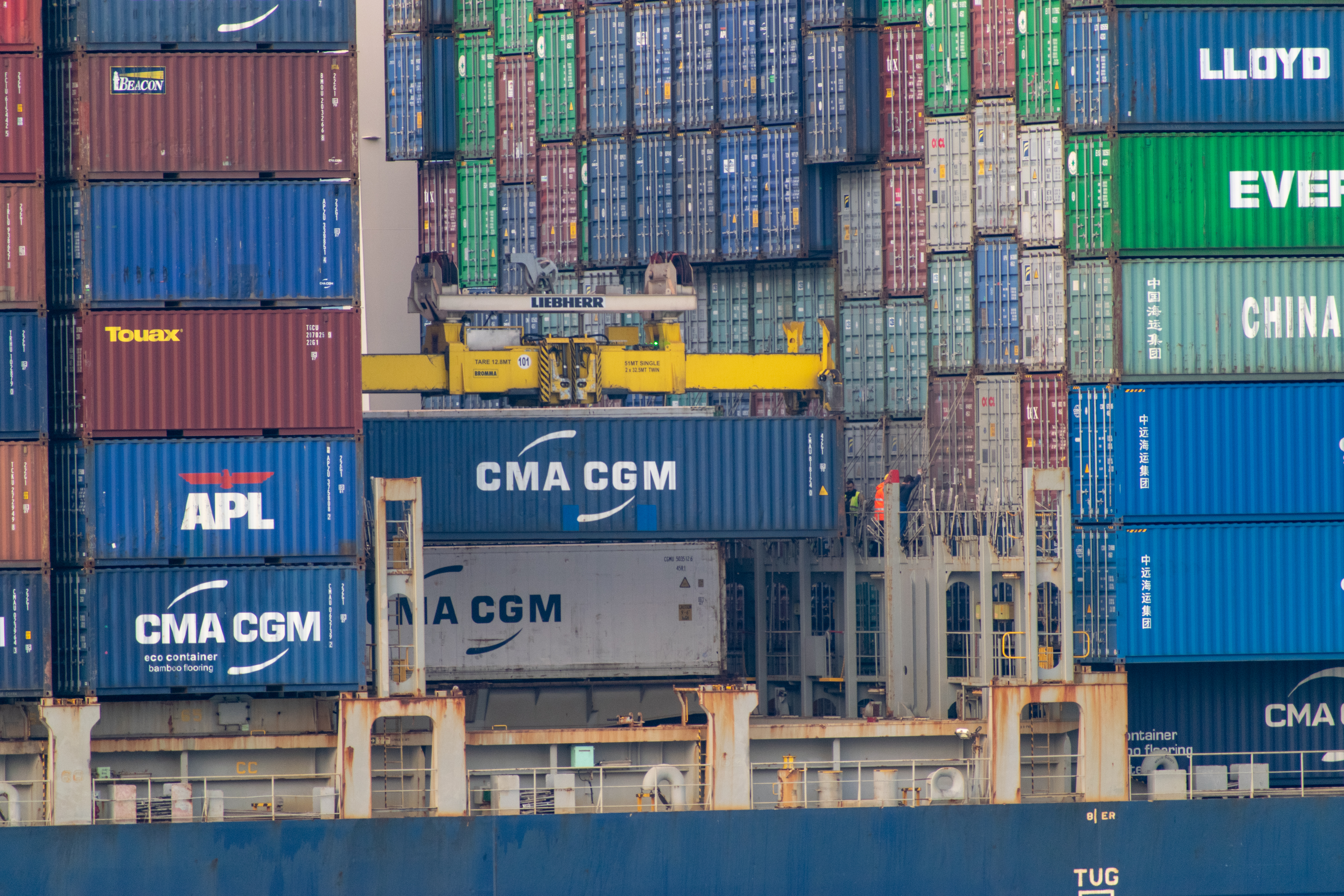 Port of Koper